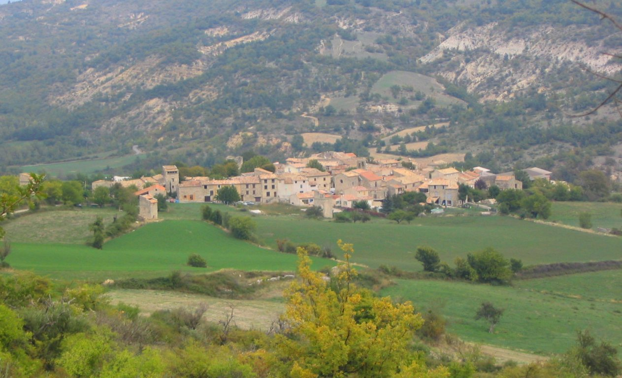 Picture of Limans - French town.